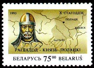 Rogvolod, prince of Polatsk (945 - 978), Post stamp of Belarus